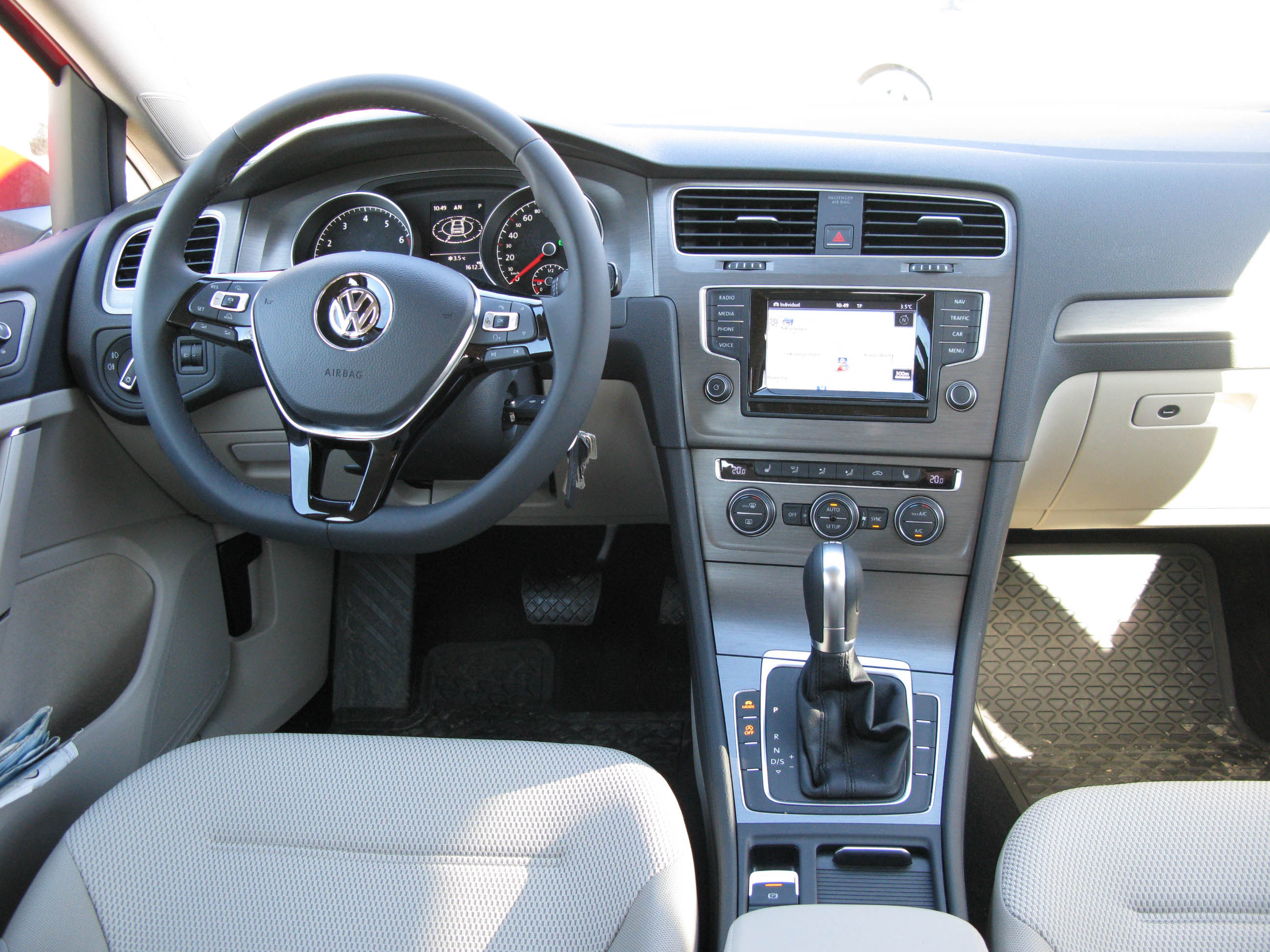 VW Golf SE